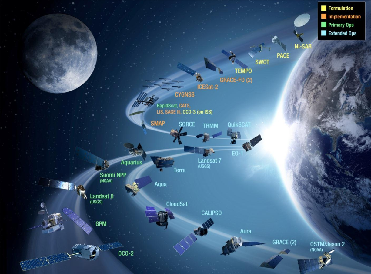 NASA Earth science missions feb 2015